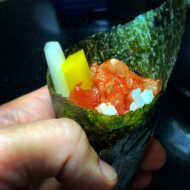 spicy tuna hand roll sushi